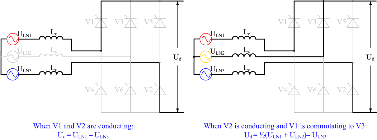 Six-pulse bridge at two different stages in the cycle. On the left, valves V1 and V2 only are conducting and the DC voltage is formed by the voltage of phase 1 minus that of phase 3. On the right, valve 1 is in the process of transferring its current to valve 3. The DC voltage is the average of the voltages of phases 1 and 2, minus that of phase 3